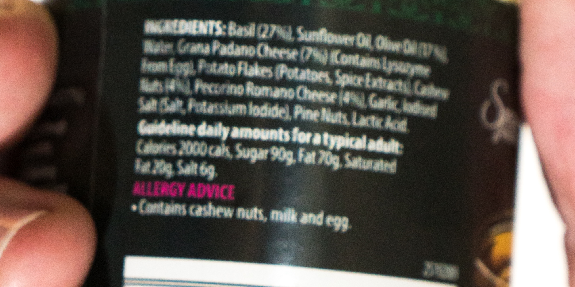 Small print. Illustrative of the problems with presbyopia.